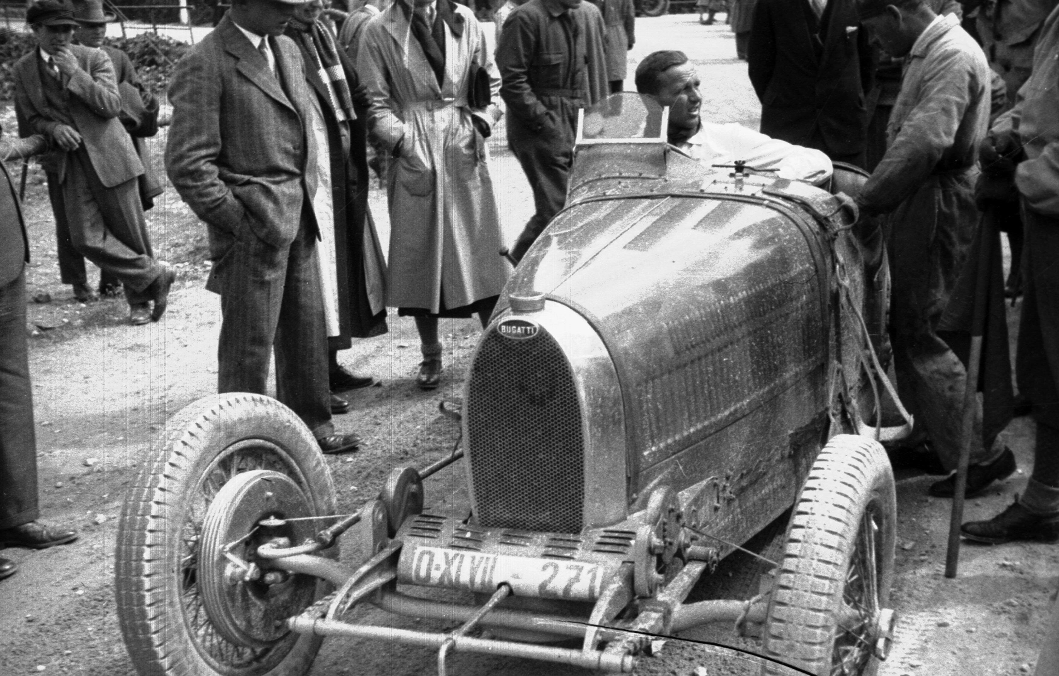 4th International Tatra Rally, Poland, August 1931. Czechoslovak Bugatti, probably of prince Lobkowitz - driver Pohl (probably pictured)